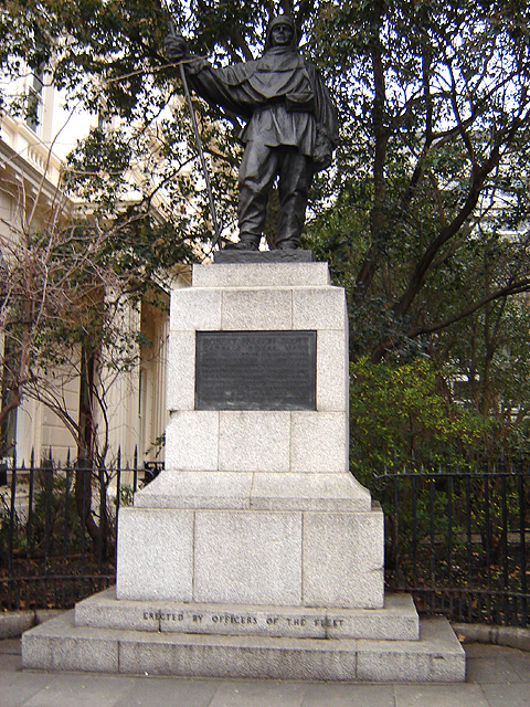 Statue of Captain Scott (of the Antarctic), Westminster, London. 14 January 2006. Photographer: Fin Fahey